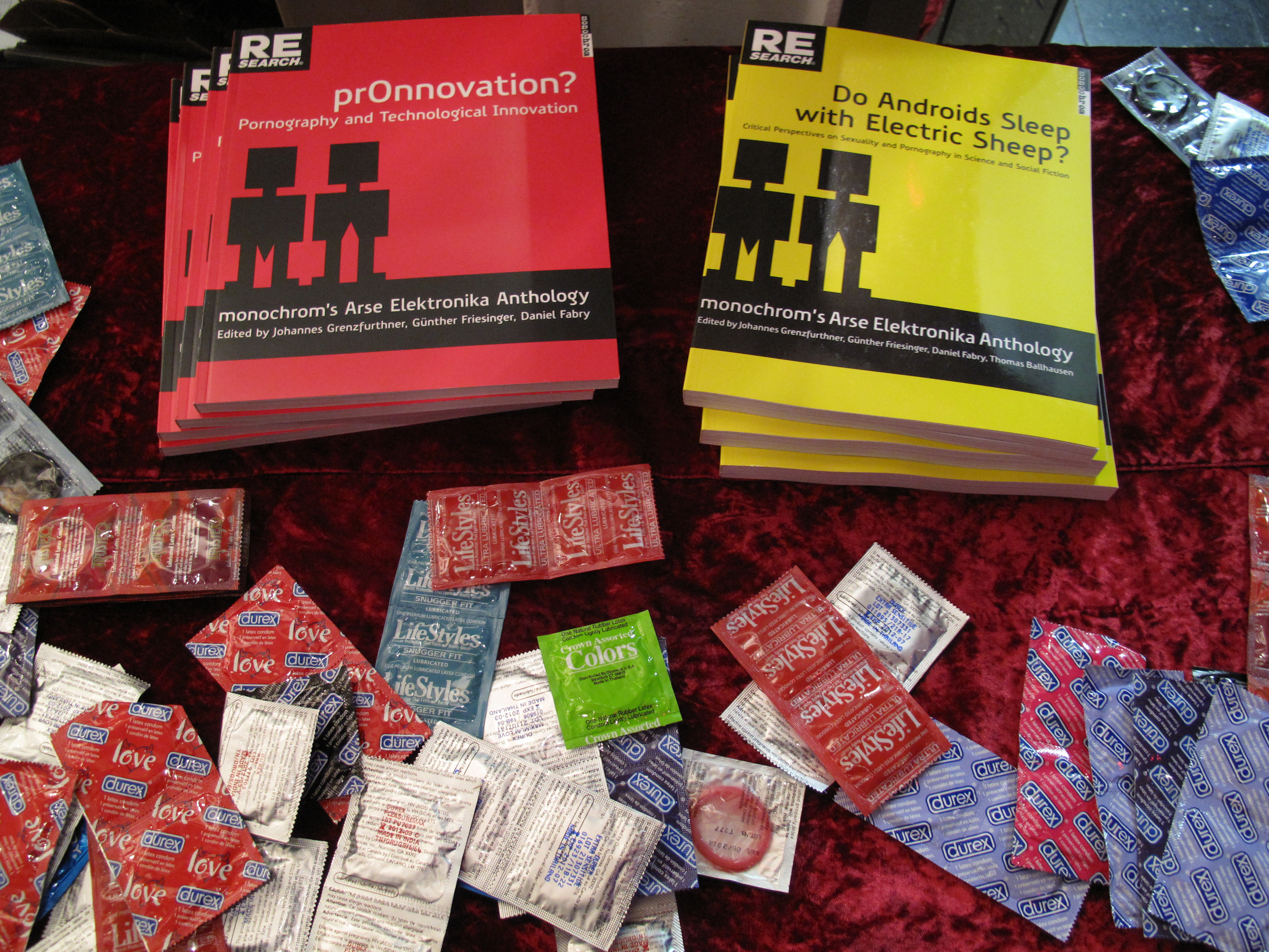 monochrom's Arse Elektronika anthologies "pr0nnovation?" and "Do Androids Sleep With Electric Sheep?" (published by RE/Search and monochrom)